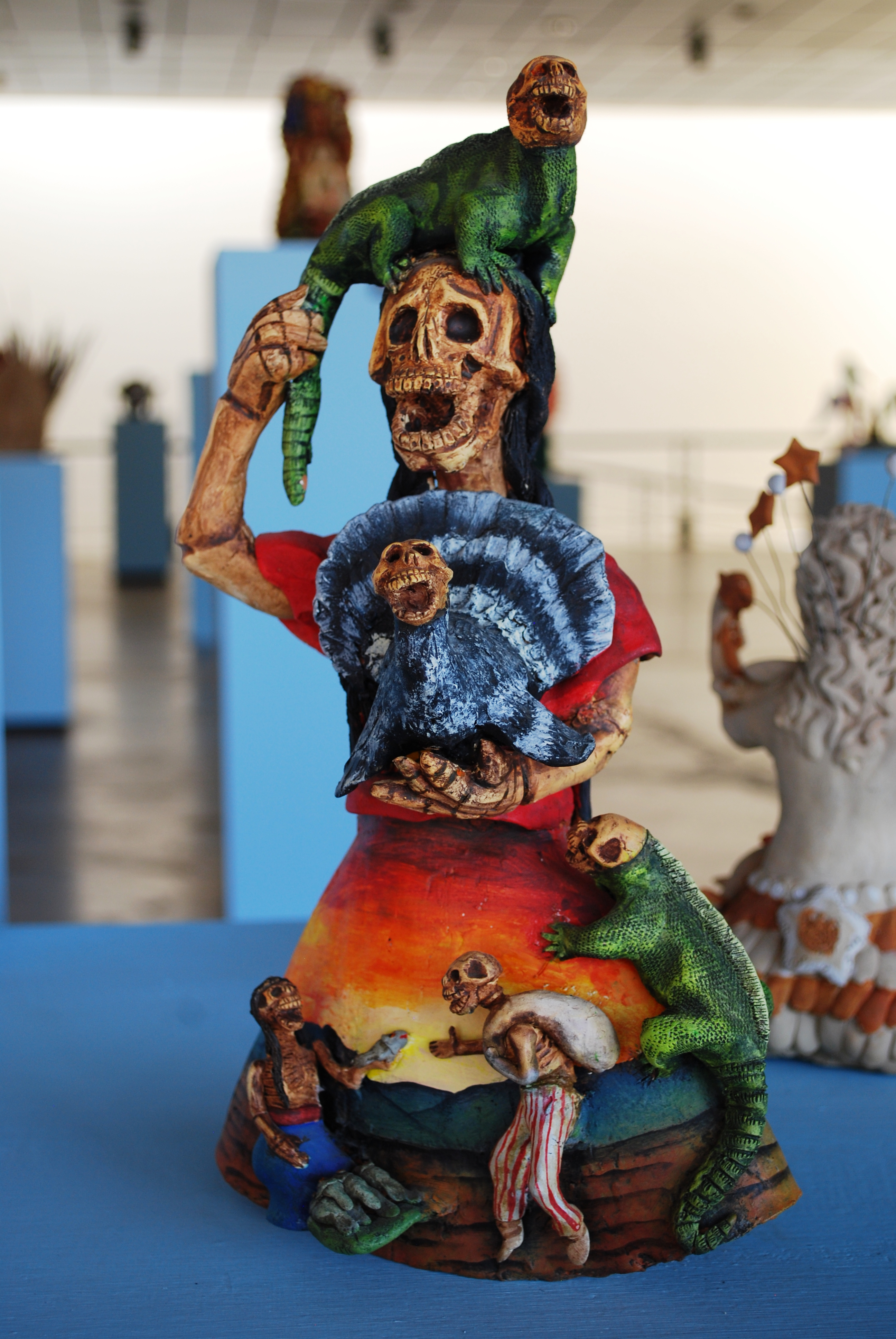 Untitled work by Demetrio Garcia Aguilar of Ocotlan de Morelos at Museo Estatal de Arte Popular de Oaxaca in San Bartolo Coyotepec, Oaxaca, Mexico. See COM:CRT/Mexico#Freedom of panorama